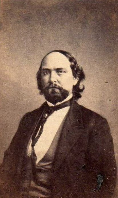 Portrait of Daniel C. DeJarnette